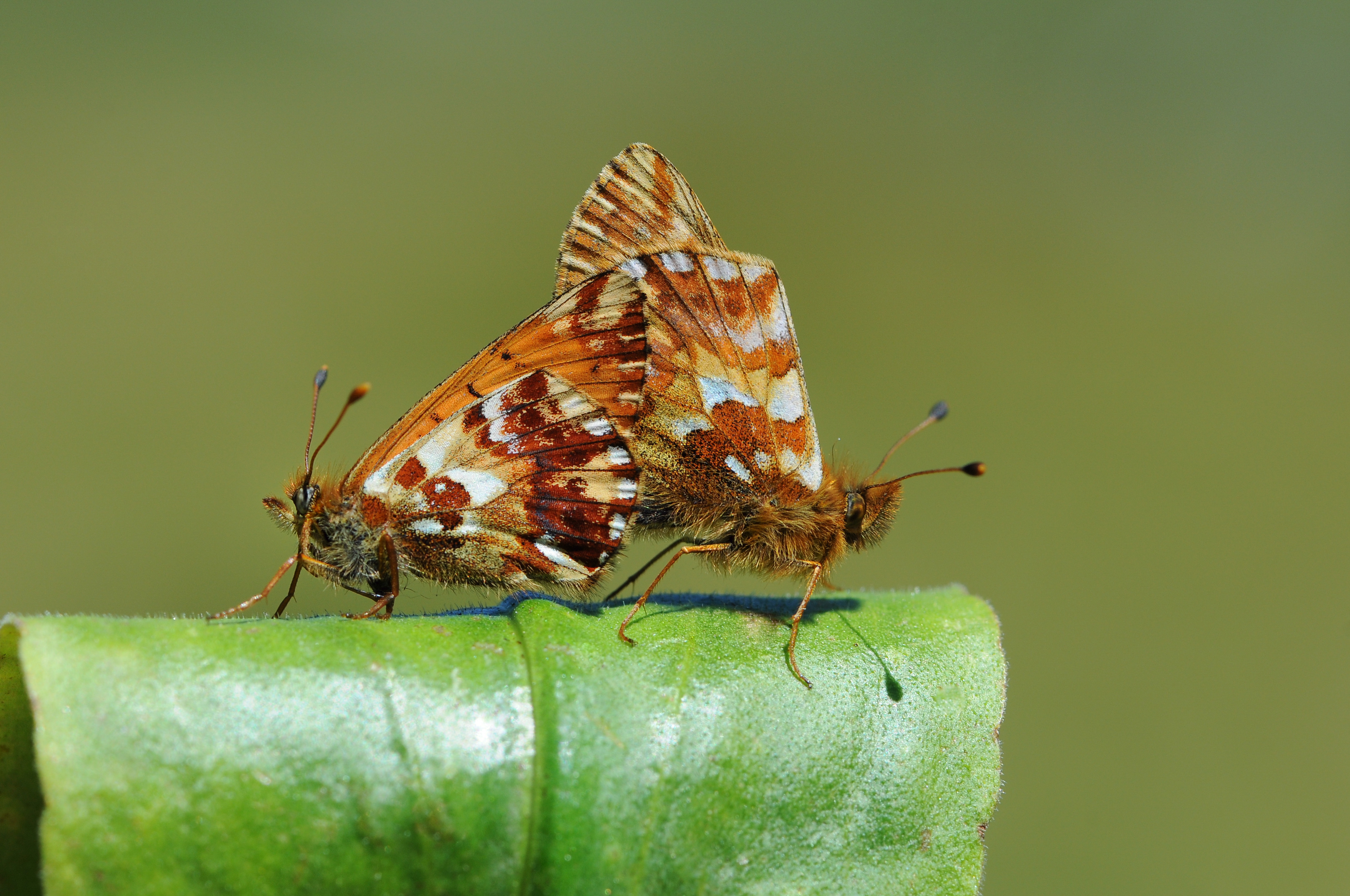 The Cranberry Fritillary is a butterfly of the Nymphalidae family. It is found in Northern and Central Europe.